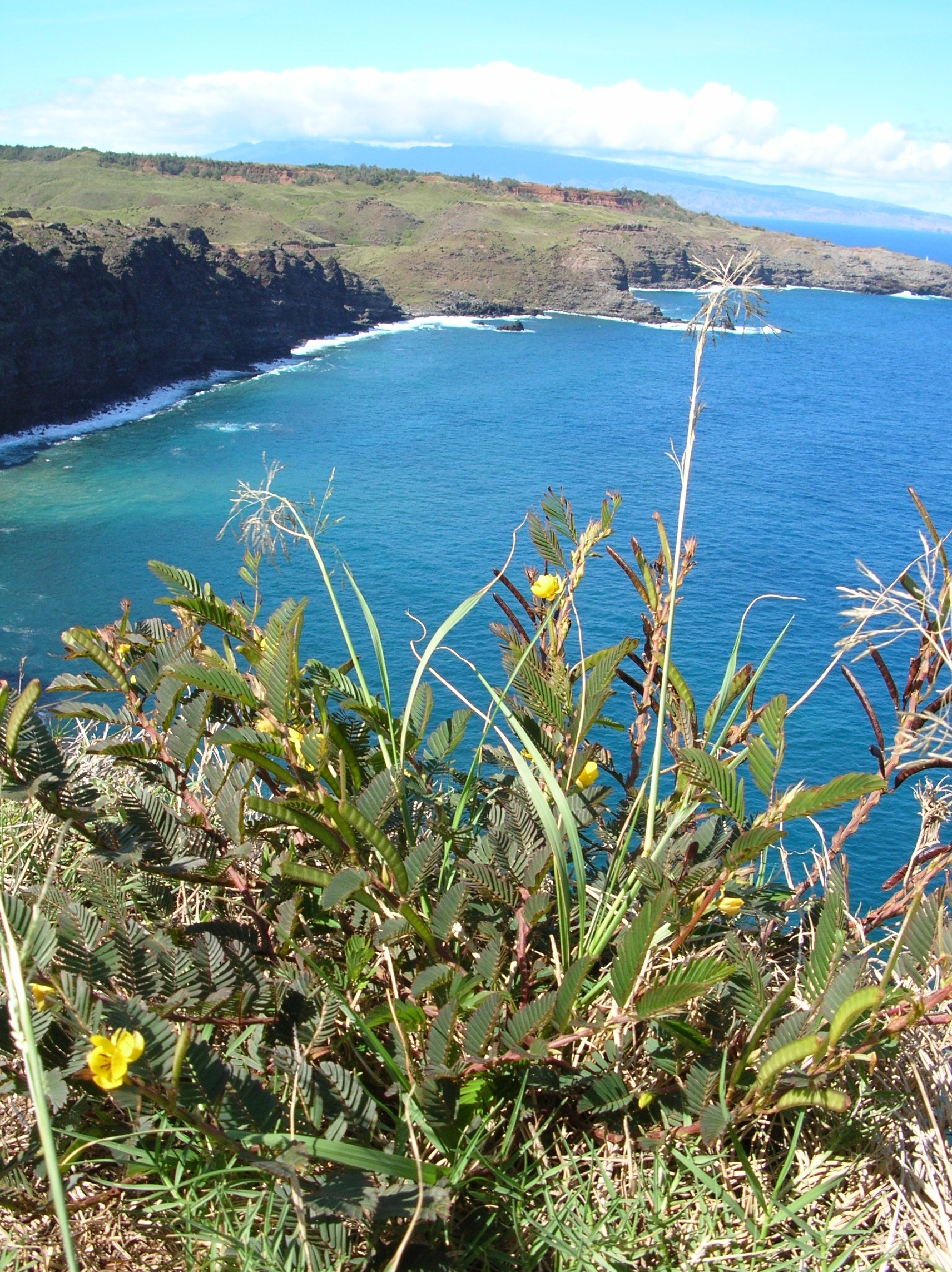 Chamaecrista nictitans (habit). Location: Maui, Papanalahoa